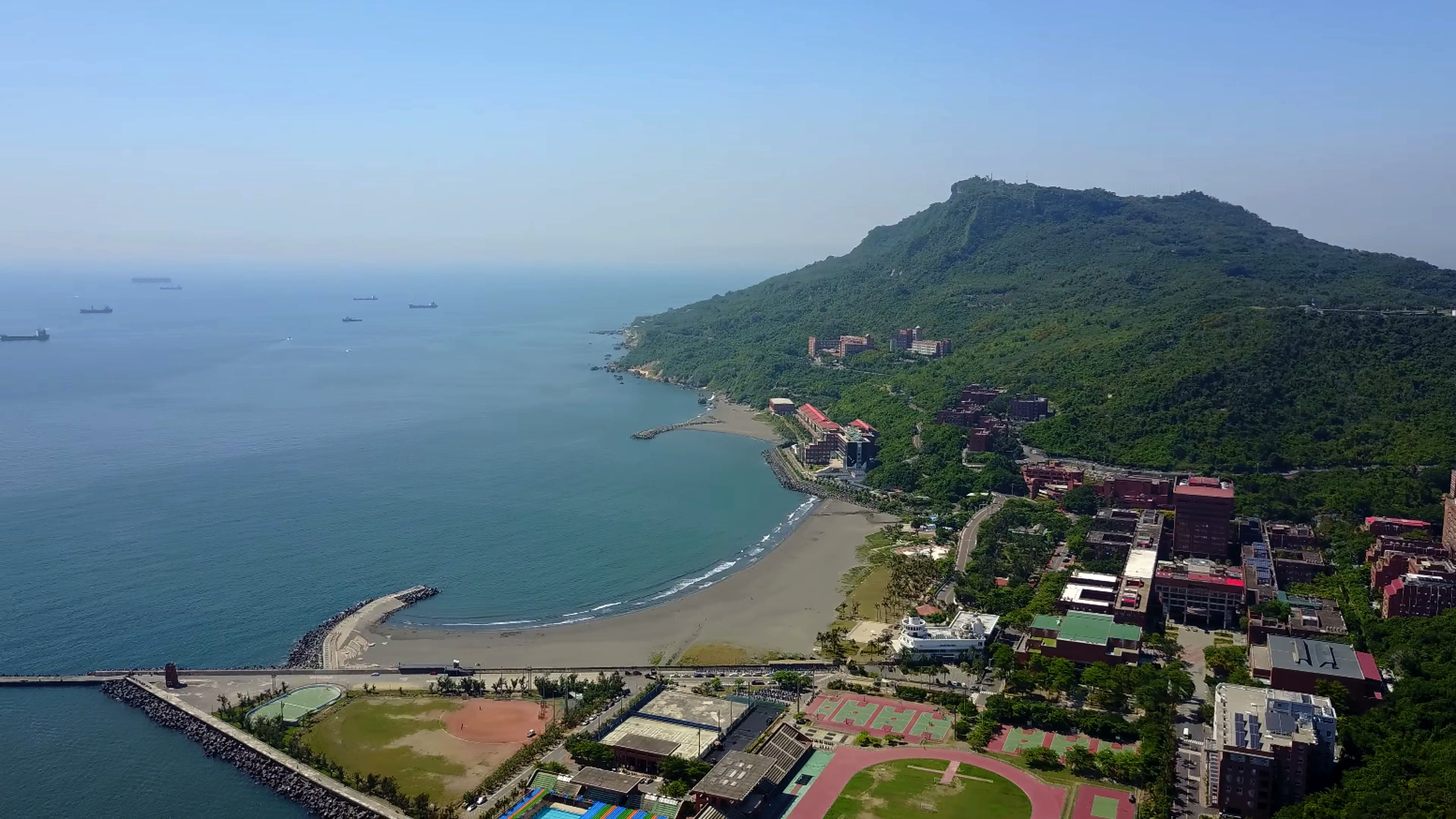 Sizihwan, Shoushan, and National Sun Yat-sen University